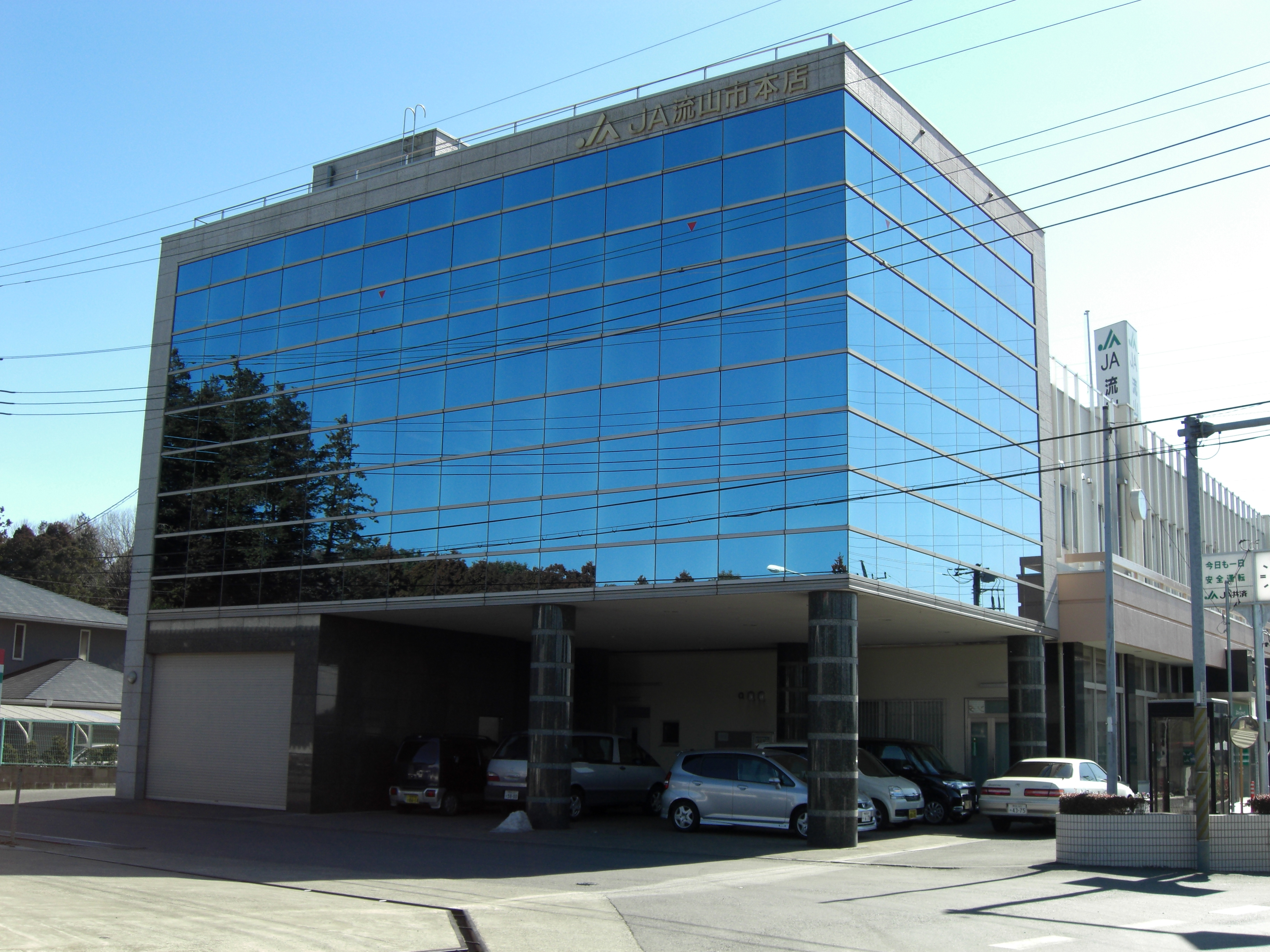 JA(Japan Agricultural Cooperatives) Nagareyama